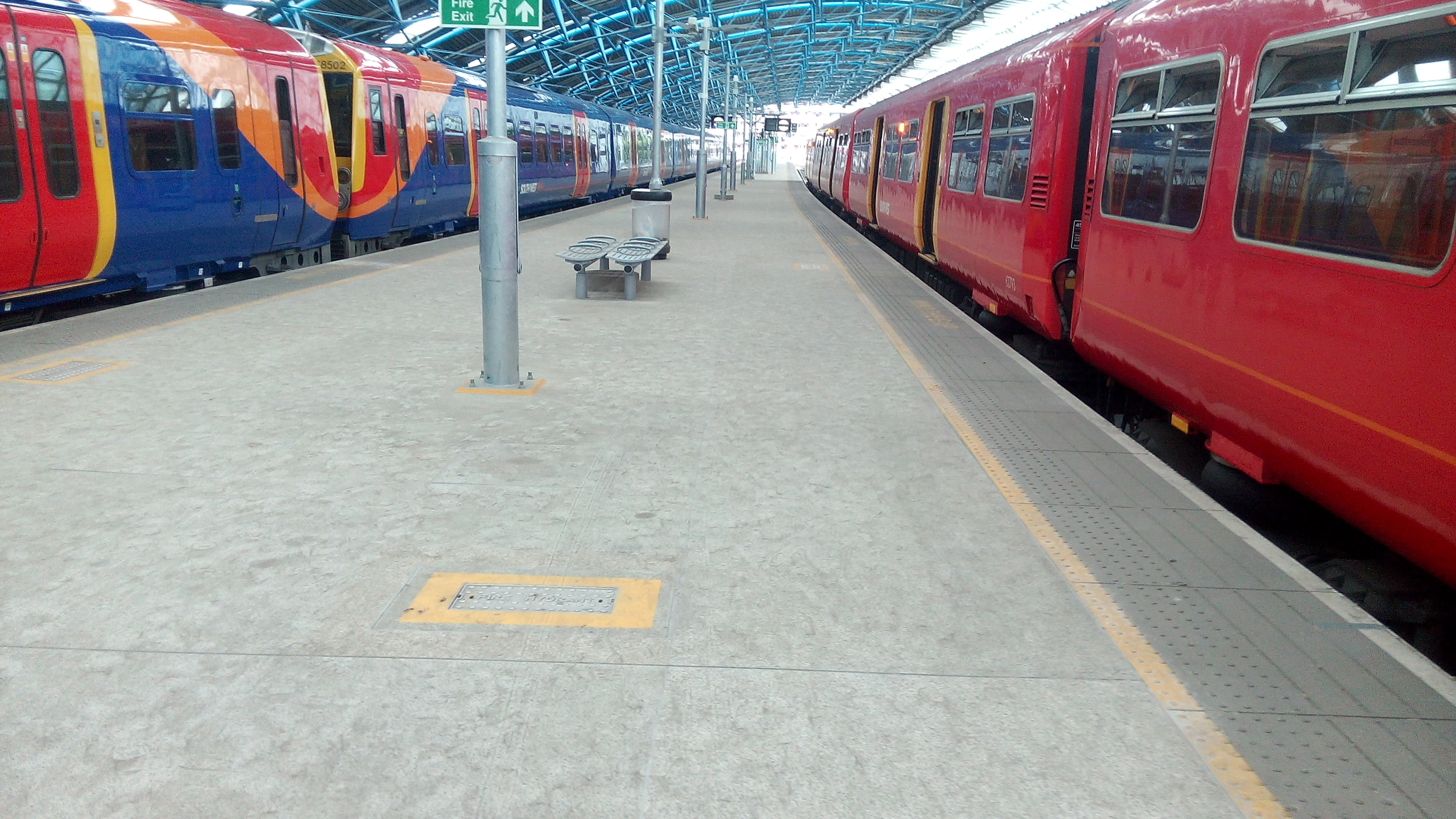 South West Trains units occupying platforms 21 and 22, Waterloo (ex-International Terminal) station at 15:30 on 23 July 2015.